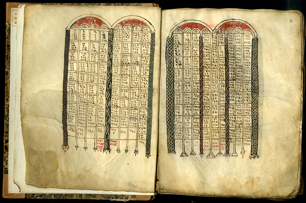 Folio 1 verso with the Eusebian Canon tables